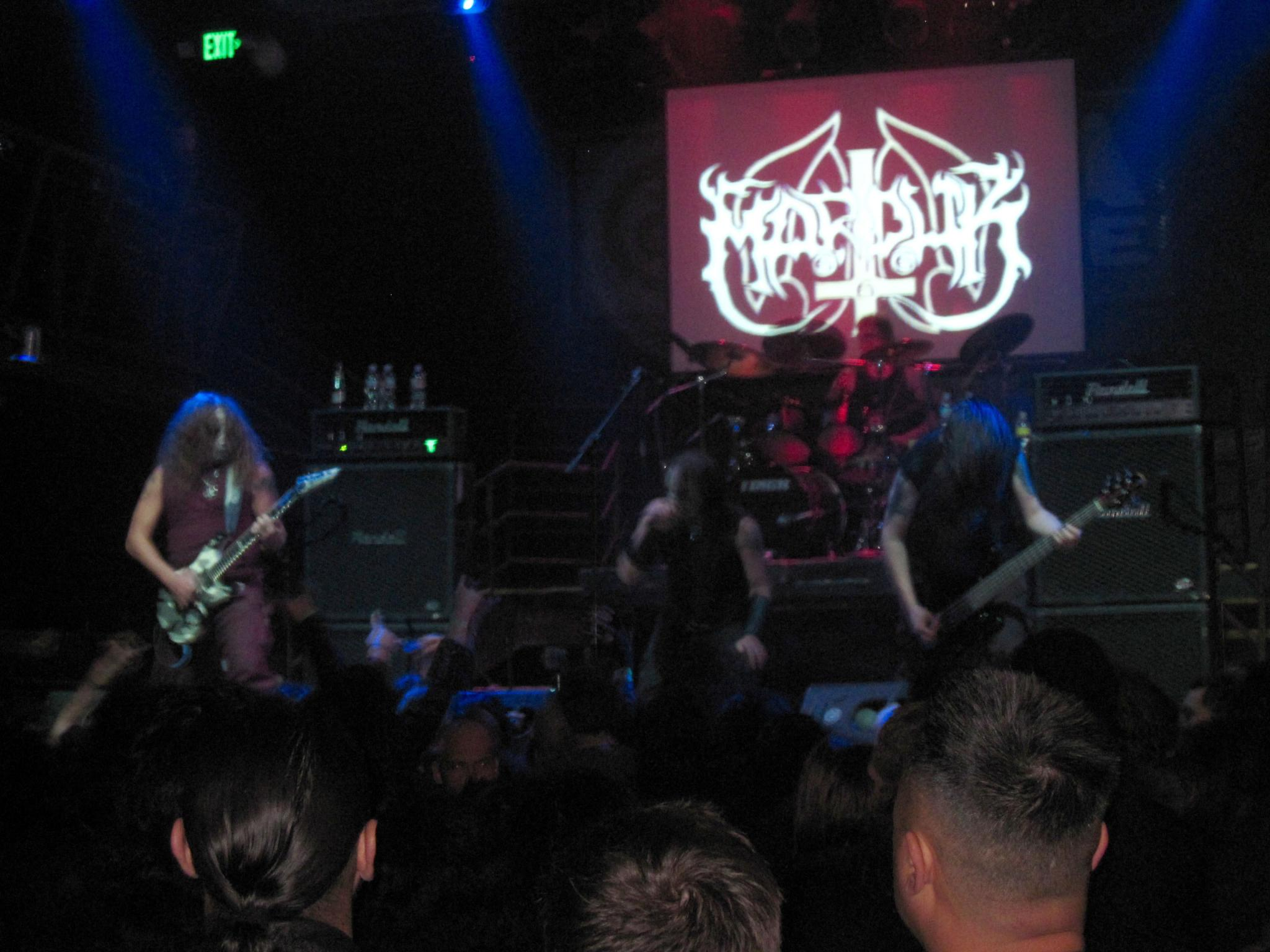 Marduk live in San Francisco in 2009